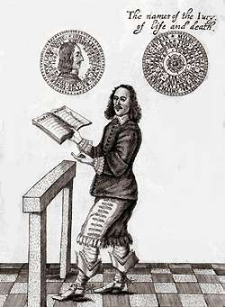 John Lilburne (1614 – 29 August 1657), also known as Freeborn John, was an English political Leveller before, during and after the English Civil Wars. In 1649 he was tried for high treason in the London Guildhall. he conducted his own defense.